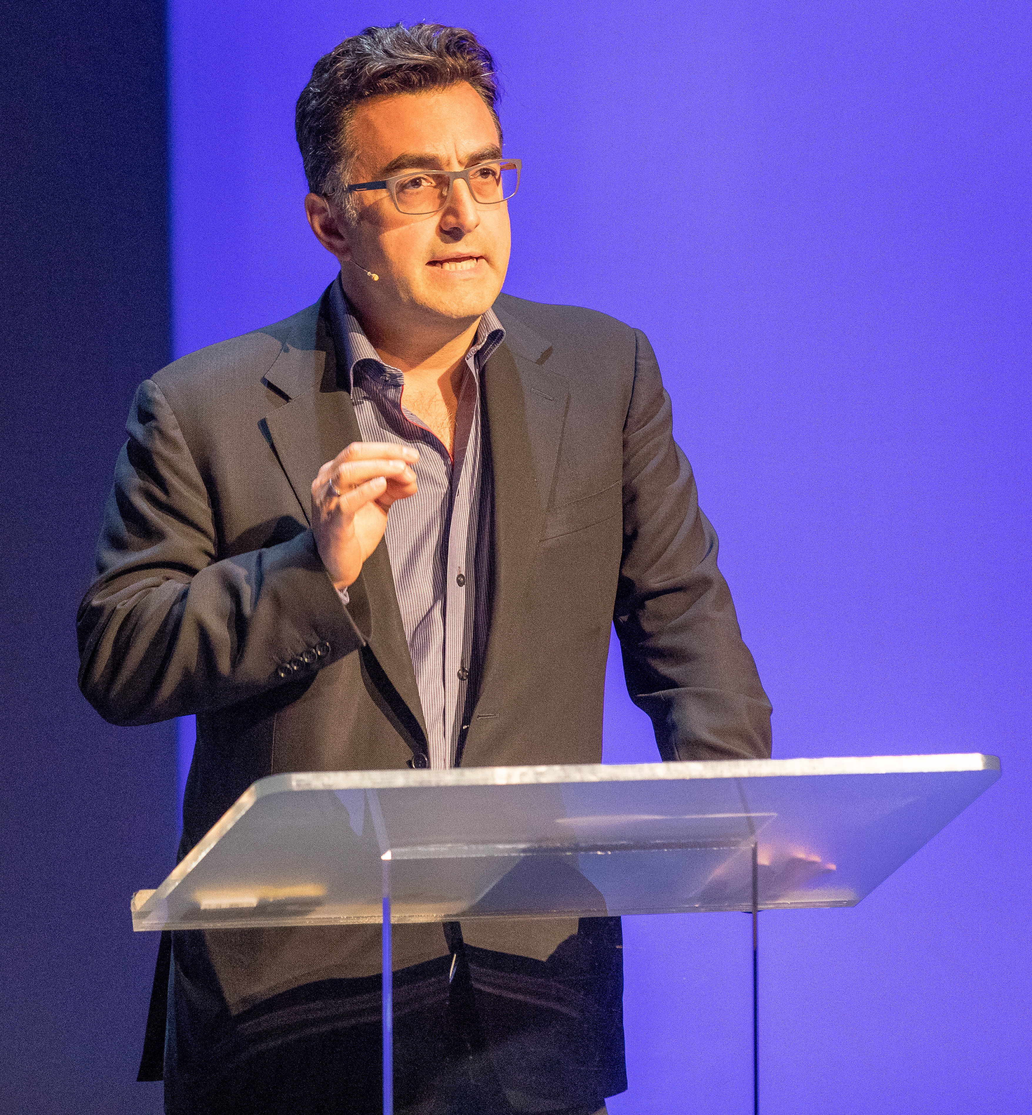 Maziar Bahari at the 2018 Oslo Freedom Forum. The sessions where held in Det Norske Teater on 29 and 30. May 2018.